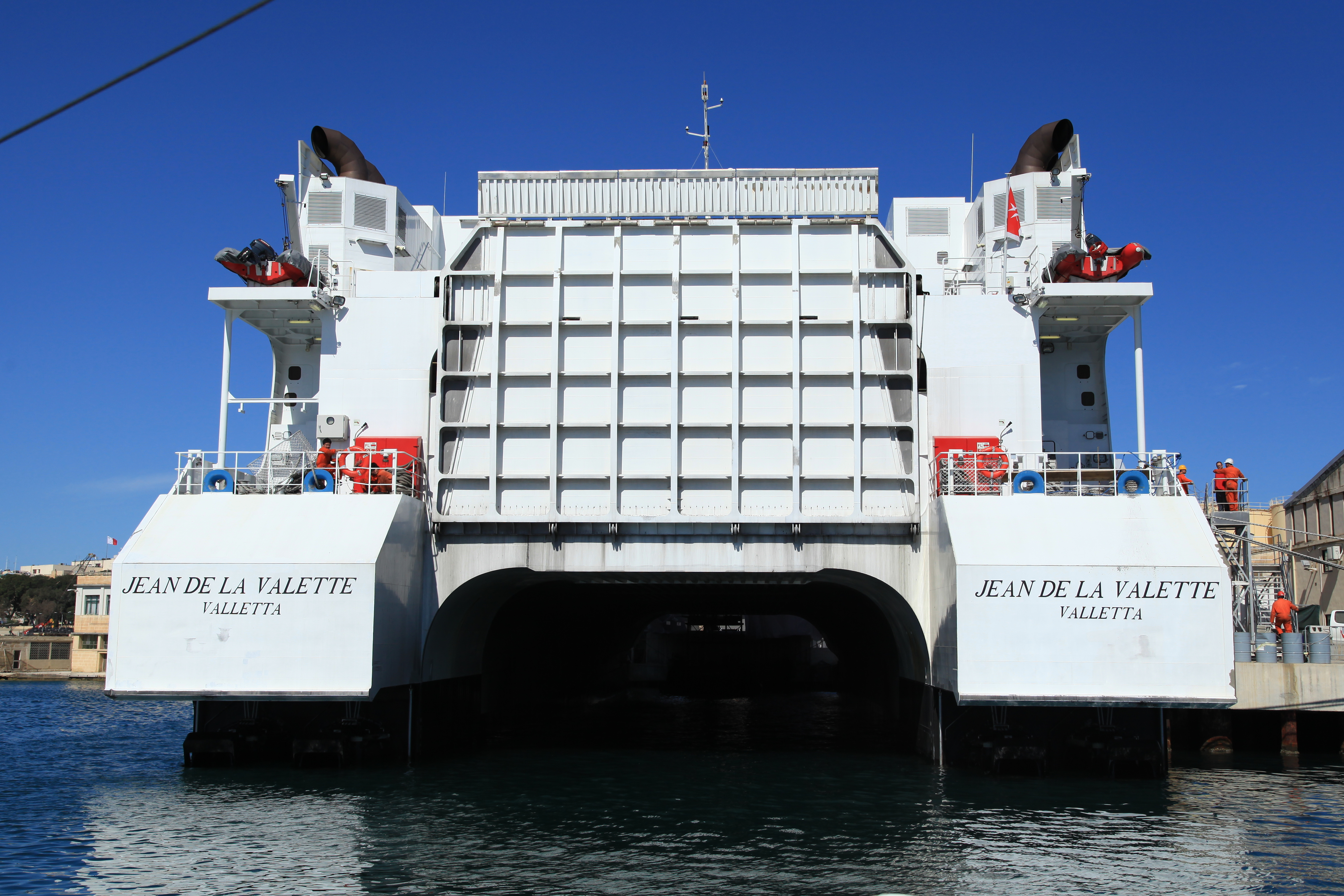 View from a Malta sightseeing two harbours cruise boat to the Ferry "Jean de la Valette" at Triq l-Għassara tal-Għeneb (aka Xatt l-Għassara tal-Għeneb) in Floriana, Malta